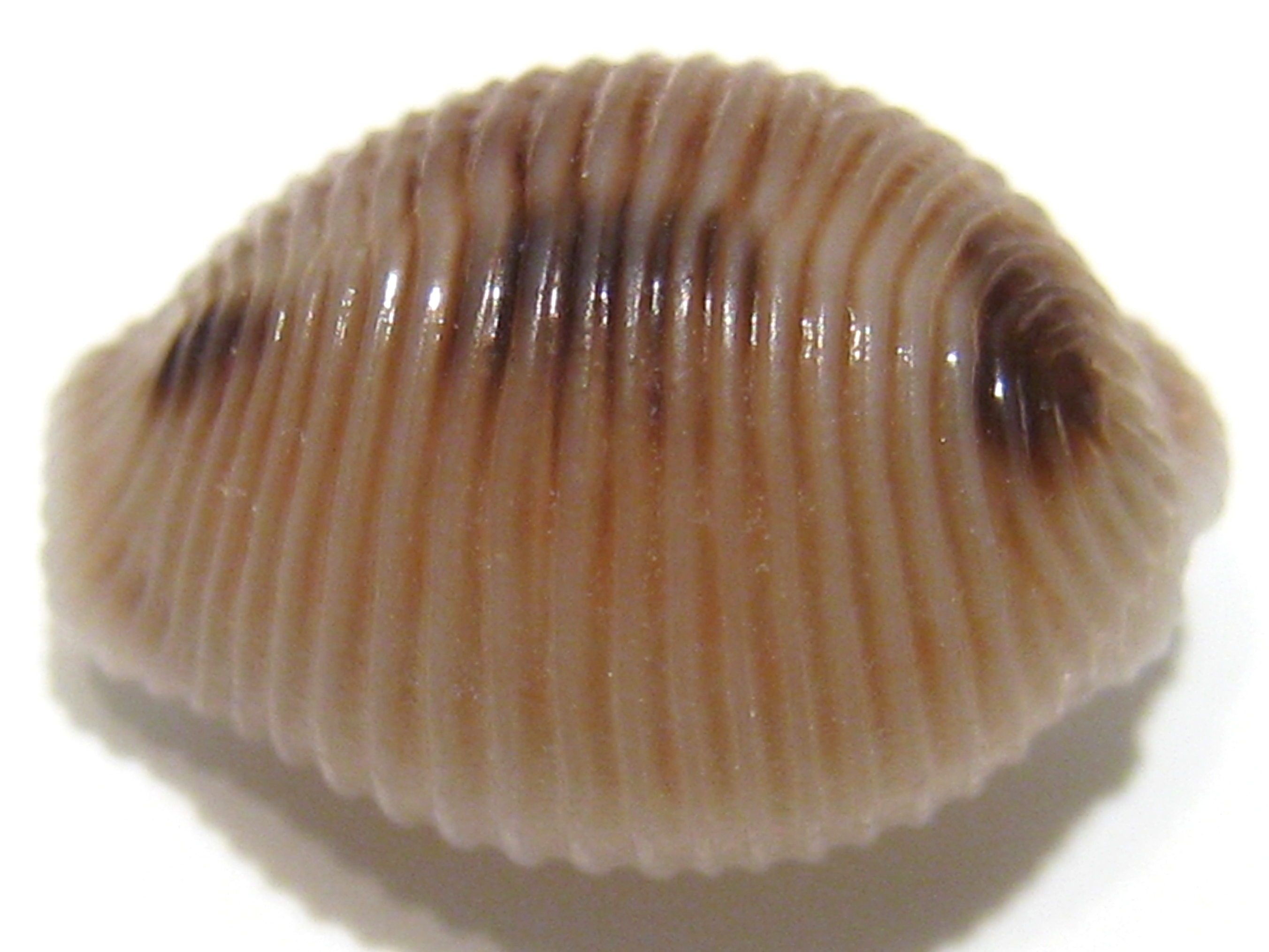 Trivia monacha